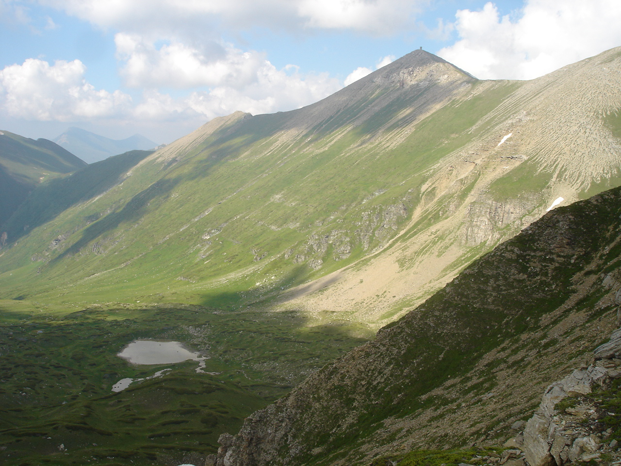 Krivoshija lake and Šar (Tito's) peak on Šar Mountain, Macedonia